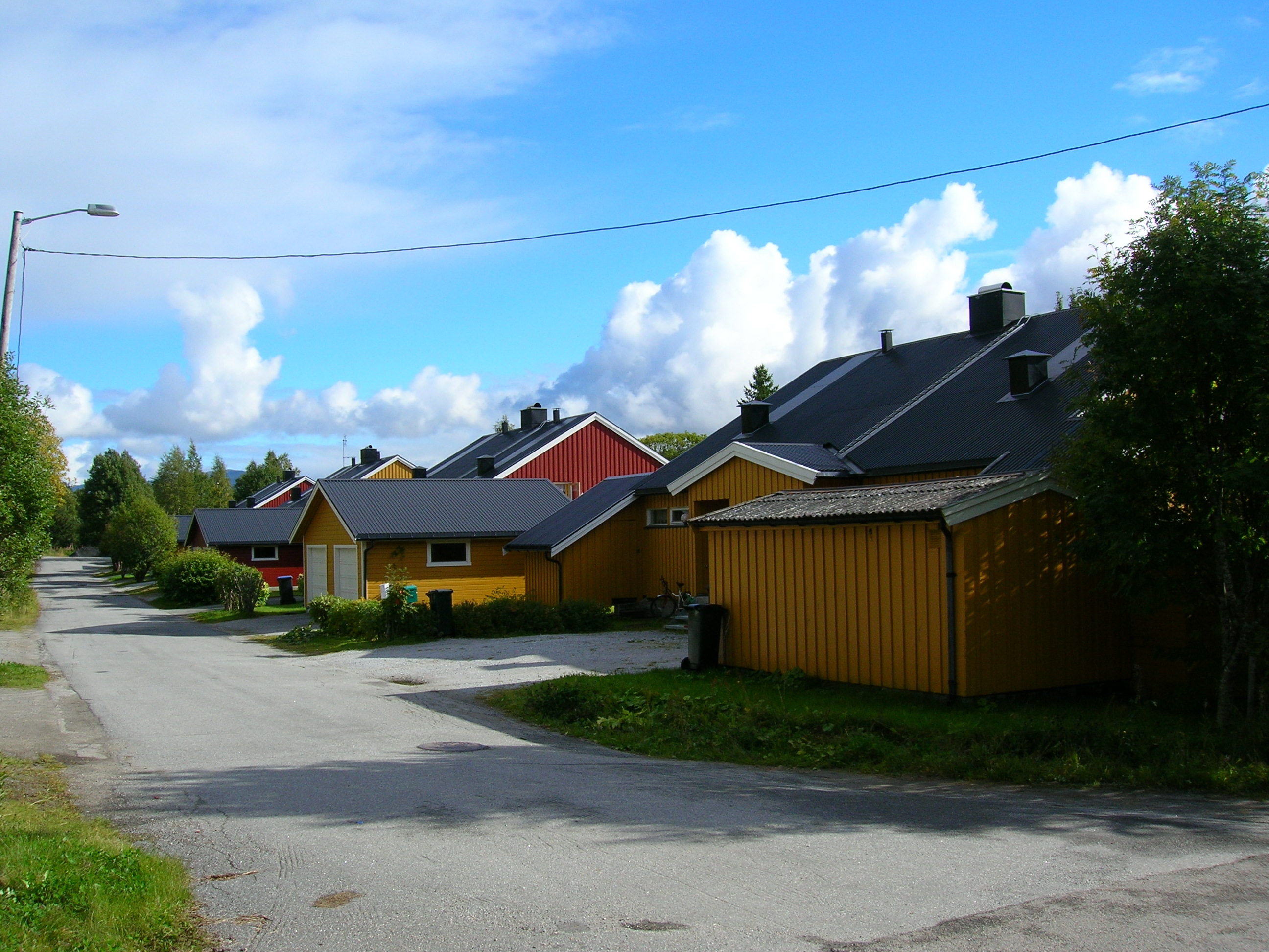 Lilleeng housing cooperative on Selfors, north of Mo i Rana, Rana municipality, county of Nordland, Norway, Photo 7 September, 2007 with a Nikon Coolpix 5600 5,1 Megapixel camera.